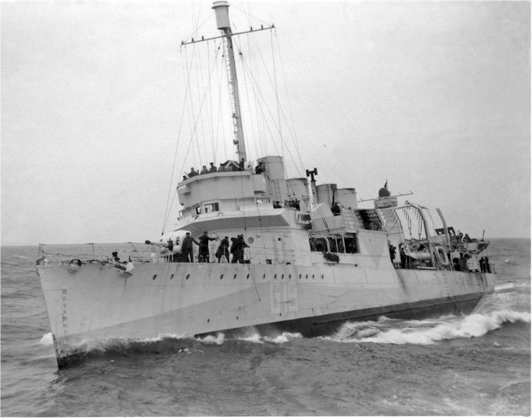 British "Town" class destroyer HMS Leamington (G19), orginally American Wickes class destroyer USS Twiggs (DD-127).